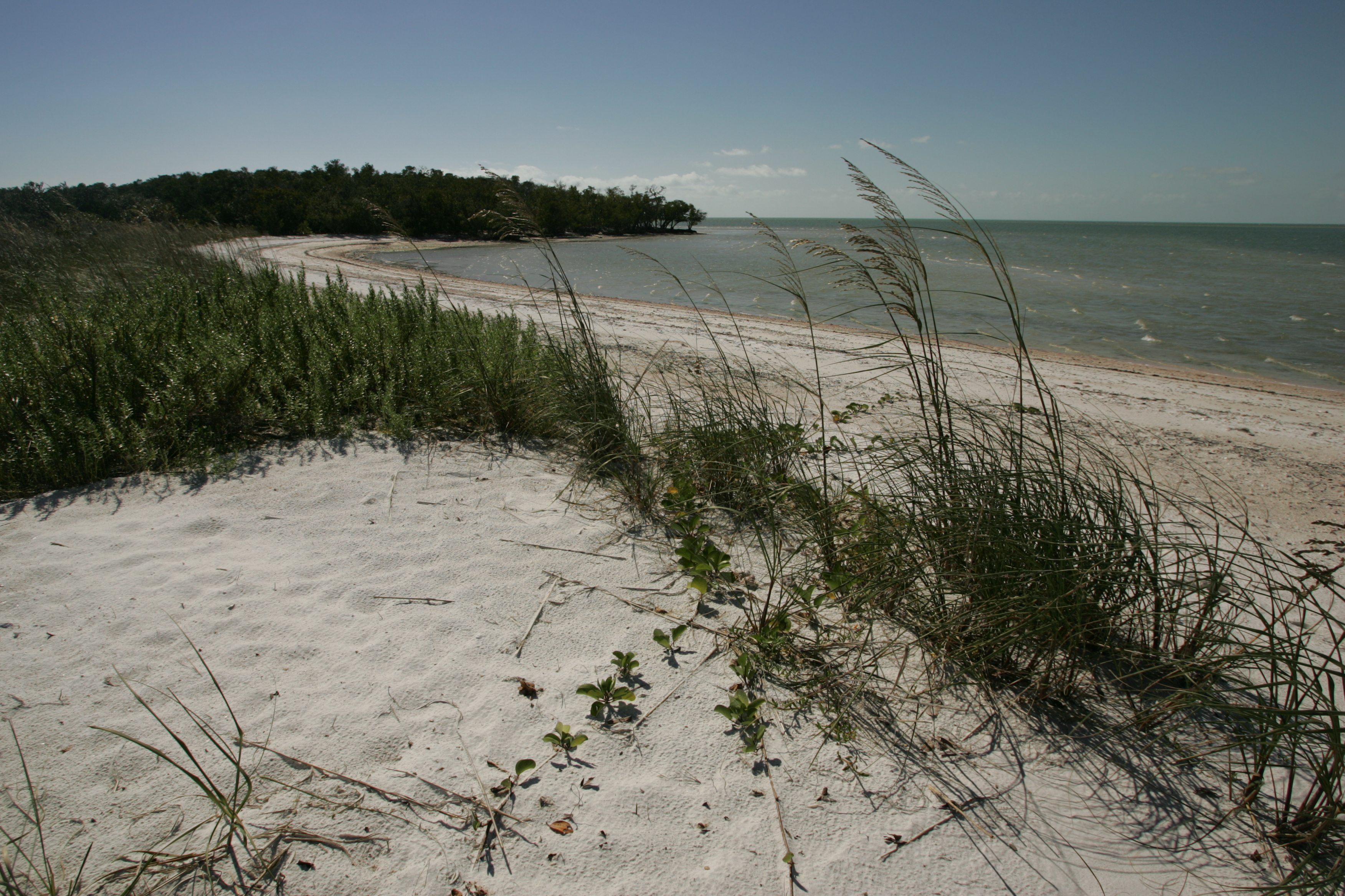 Beach shore line and vegetation — in Ten Thousand Islands National Wildlife Refuge, southern Florida. With archaeological sites on the National Register of Historic Places in Everglades National Park. Credits [1]